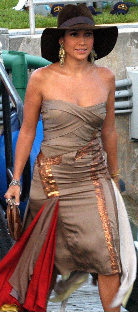 MIAMI (Aug. 29, 2004) -- MTV 2004 Video Music Awards performer Jennifer Lopez poses for a picture at ISC Miami. USCG photo by PA2 Anastasia Burns.